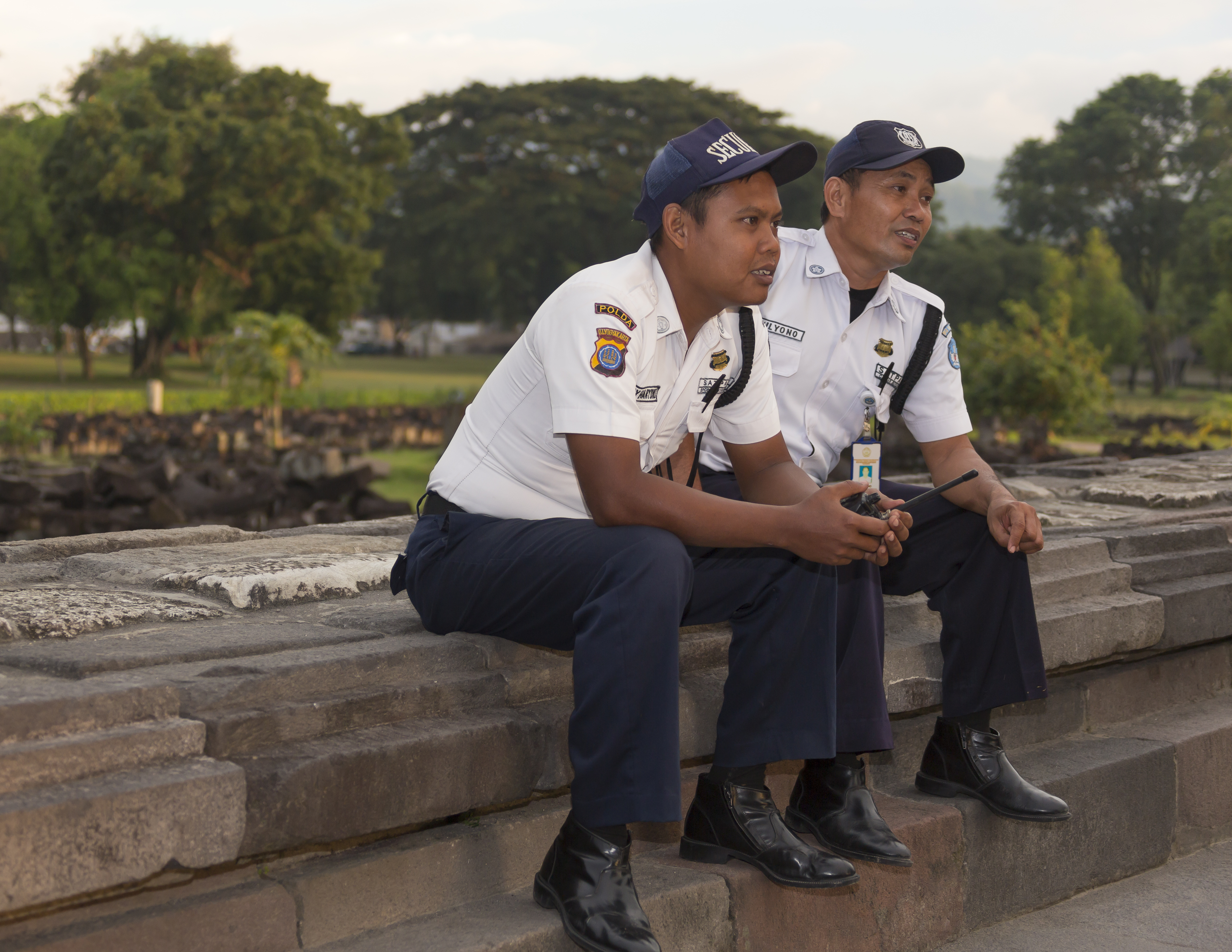 Yogyakarta, Indonesia: Security guards sitting in front of the Shiva temple at Prambanan Temple Complex during sunset.